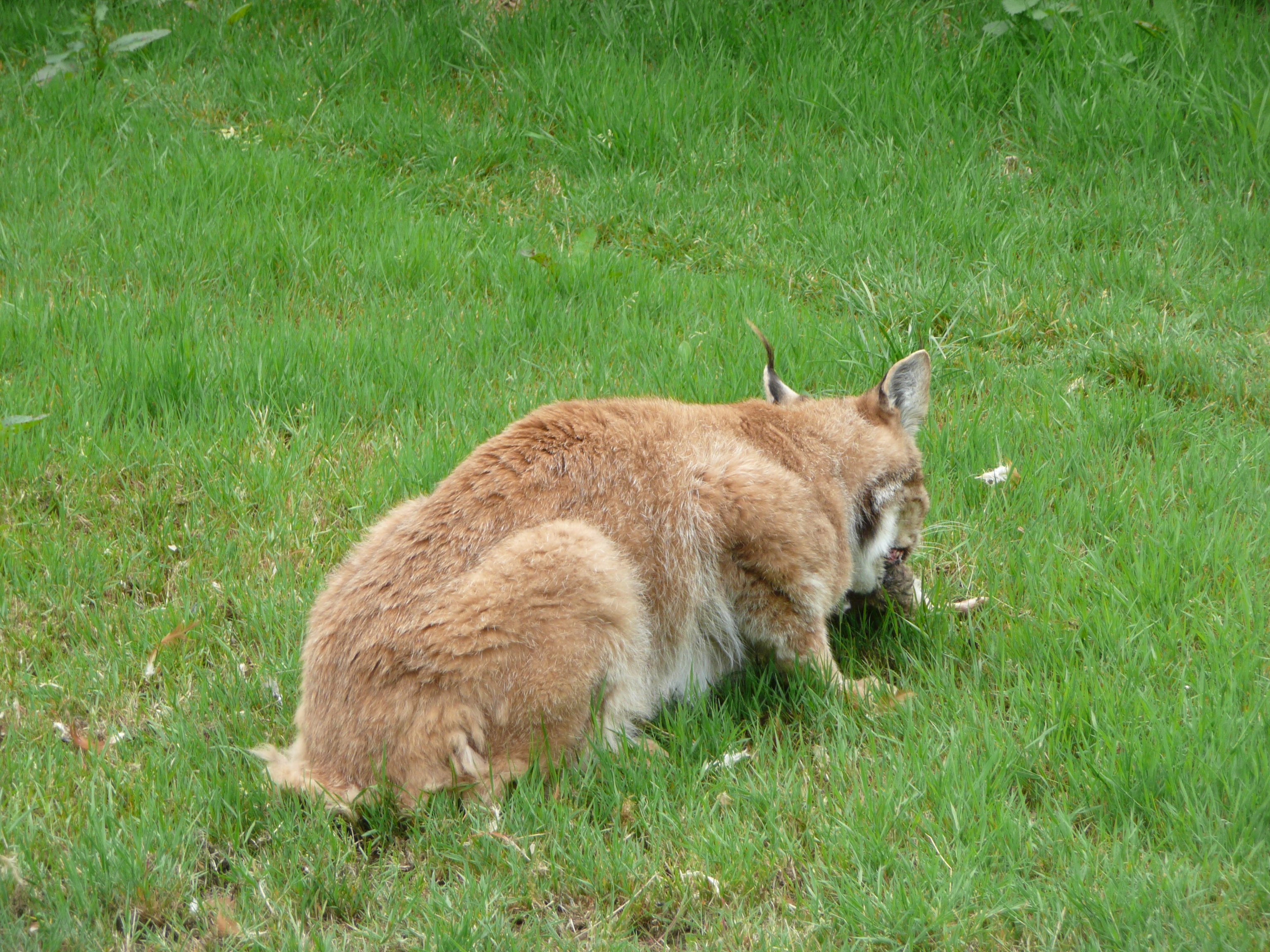 Lynx lynx (Eurasian lynx) eating meat in Howletts Wild Animal Park, Kent, England.